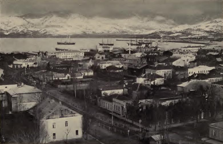 The city of Batoum